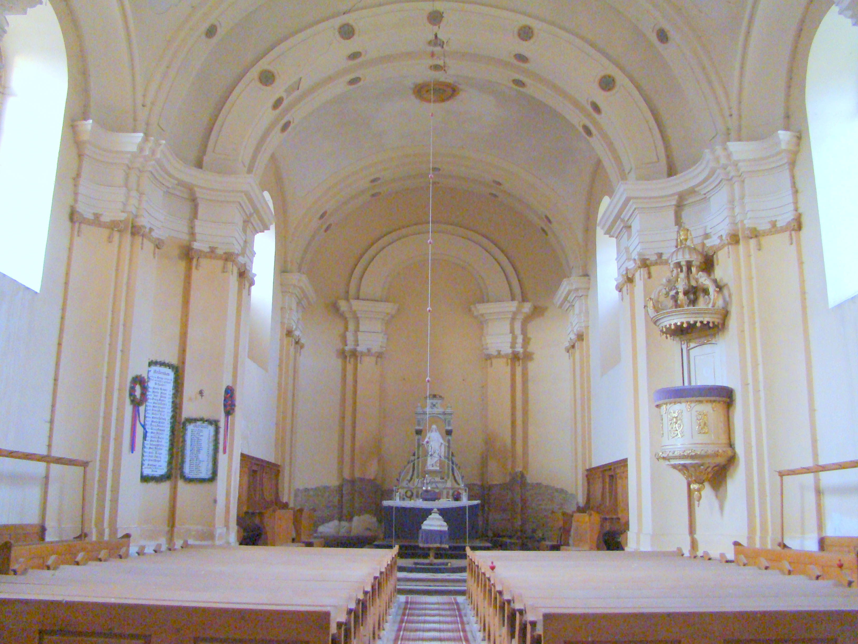 Lutheran church in Șaeș, Mureș county, Romania